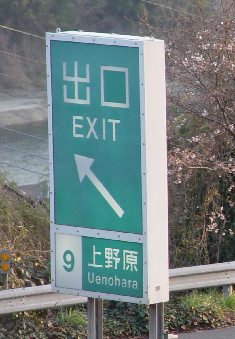 Uenohara Interchange on the Chuo Expressway, exit sign for outbound line